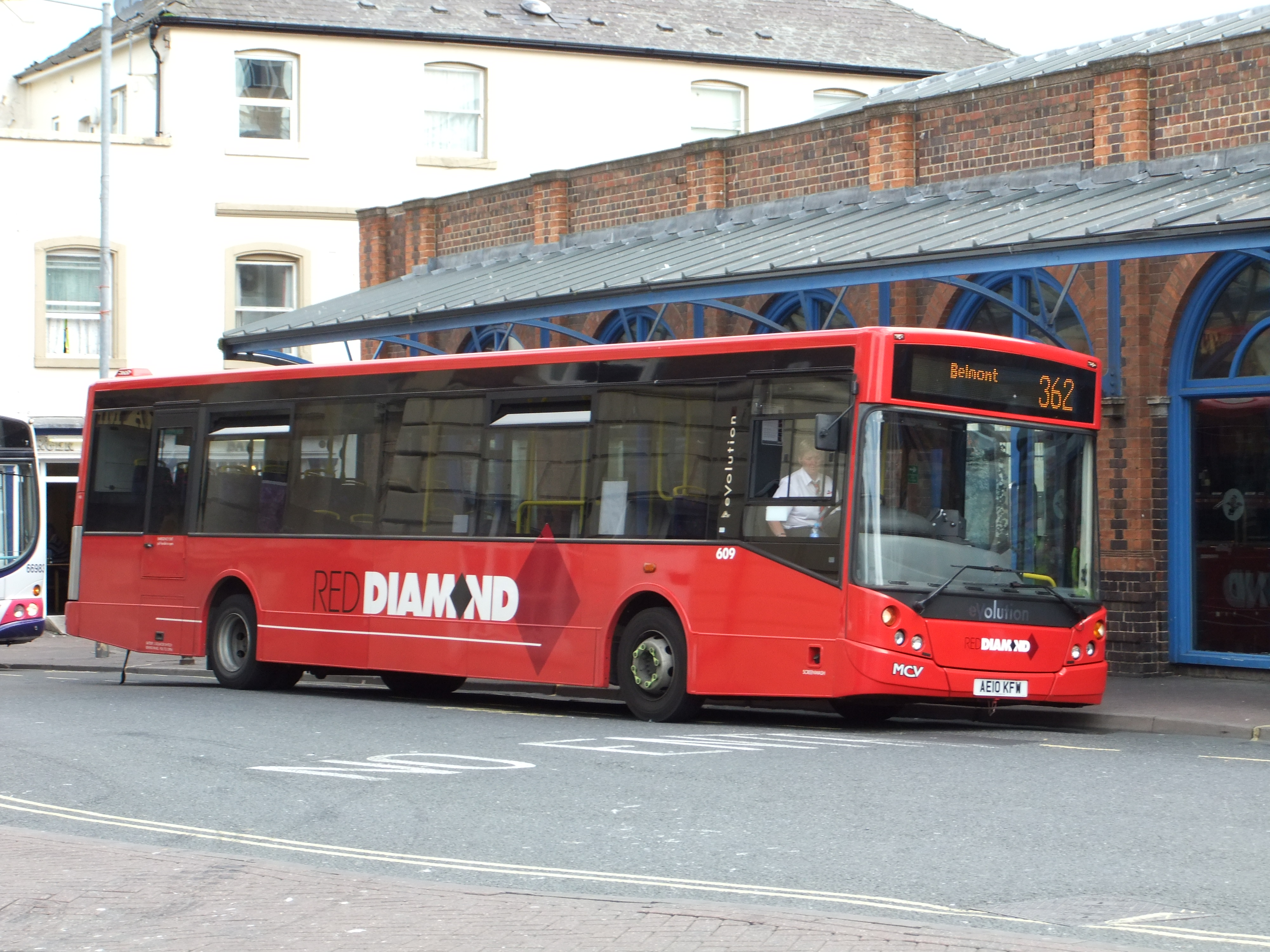 Bus at Worcester bus station, England.